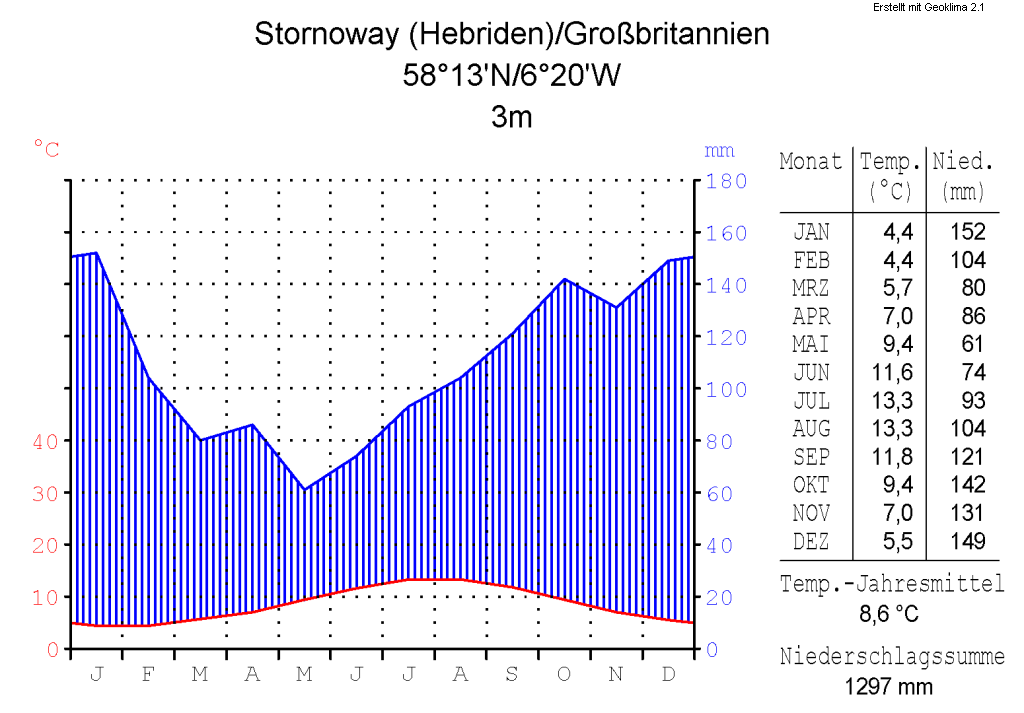 climate chart in the format by Walter and Lieth, metric, °Celsisus and millimeters, made with Geoklima 2.1